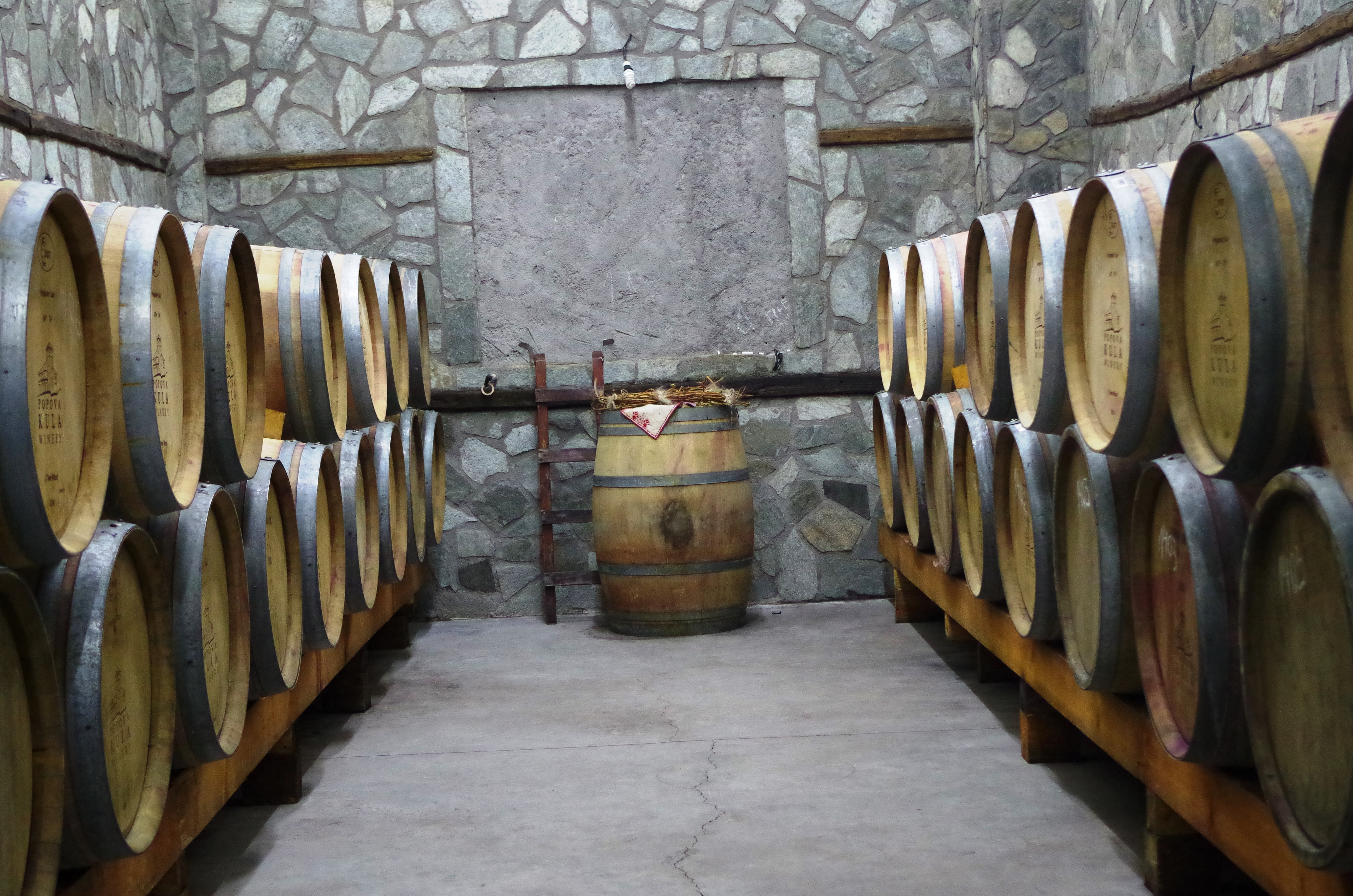 Barrels of wine, part of the winery Popova Kula near Demir Kapija